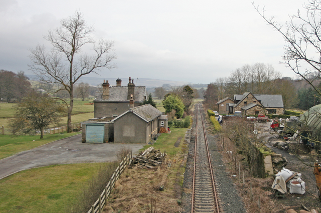 Eastgate station The building on the left is the old Eastgate Station house, this section of the railway is currently not used though there are plans to bring it back into service.